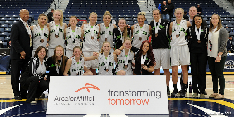 Game 10 of the 2014 CIS Women's Basketball Championships held at the University of Windsor, Windsor, Ontario, Canada. Saskatchewan Huskies vs Fraser Valley Cascades in the Bronze Medal Game on March 16, 2014. -- Photo by Edwin Tam.